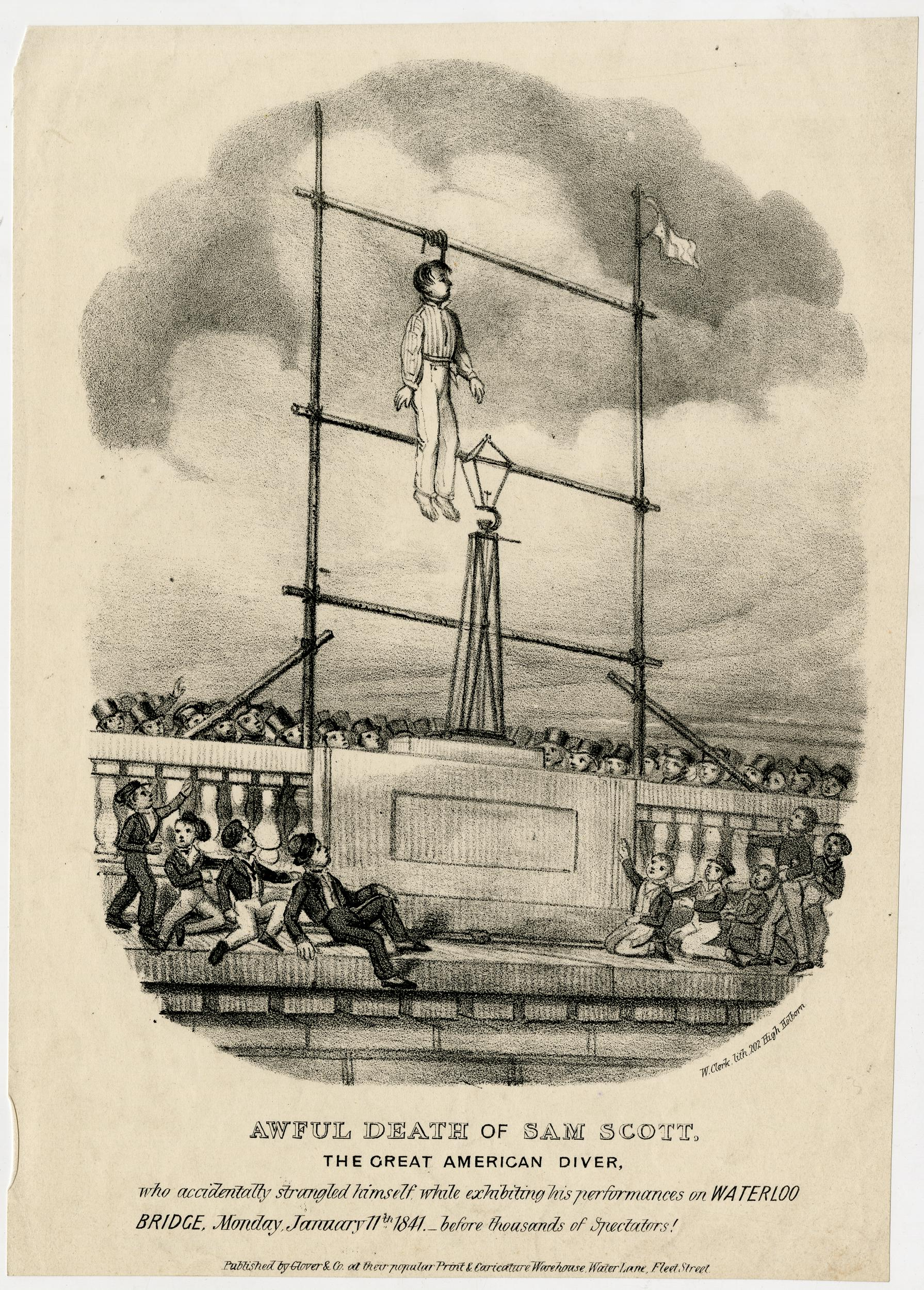 Accidental death of the diver Samuel G Scott, hanging from a scaffold on Waterloo Bridge, whole length, directed to right, watched by a crowd of spectators, children in foreground; oval composition. 1841 Lithograph